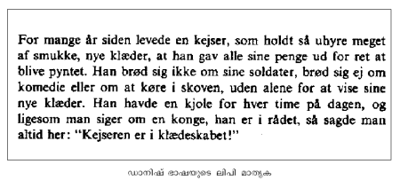 Sample of Danish script